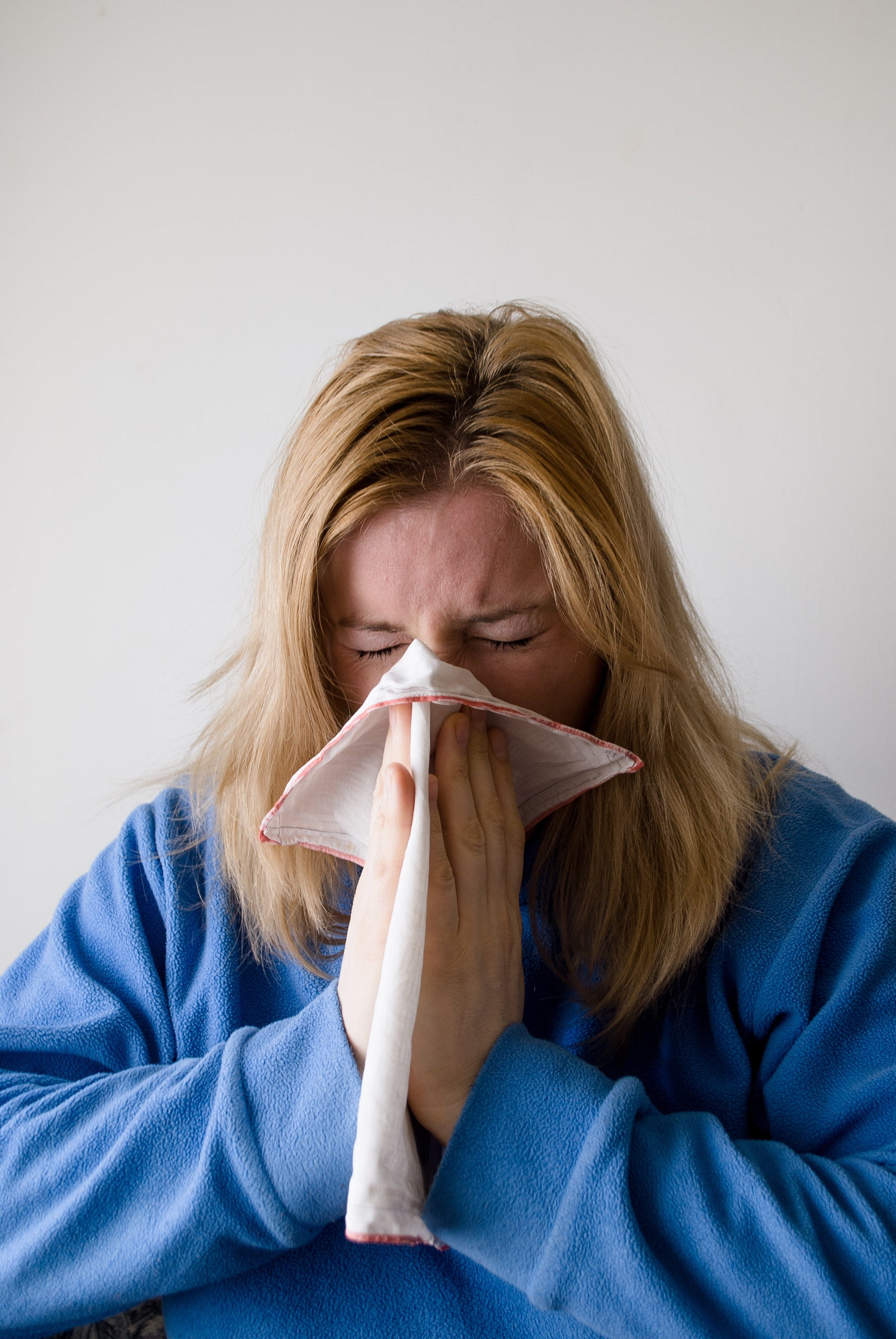 Influenza